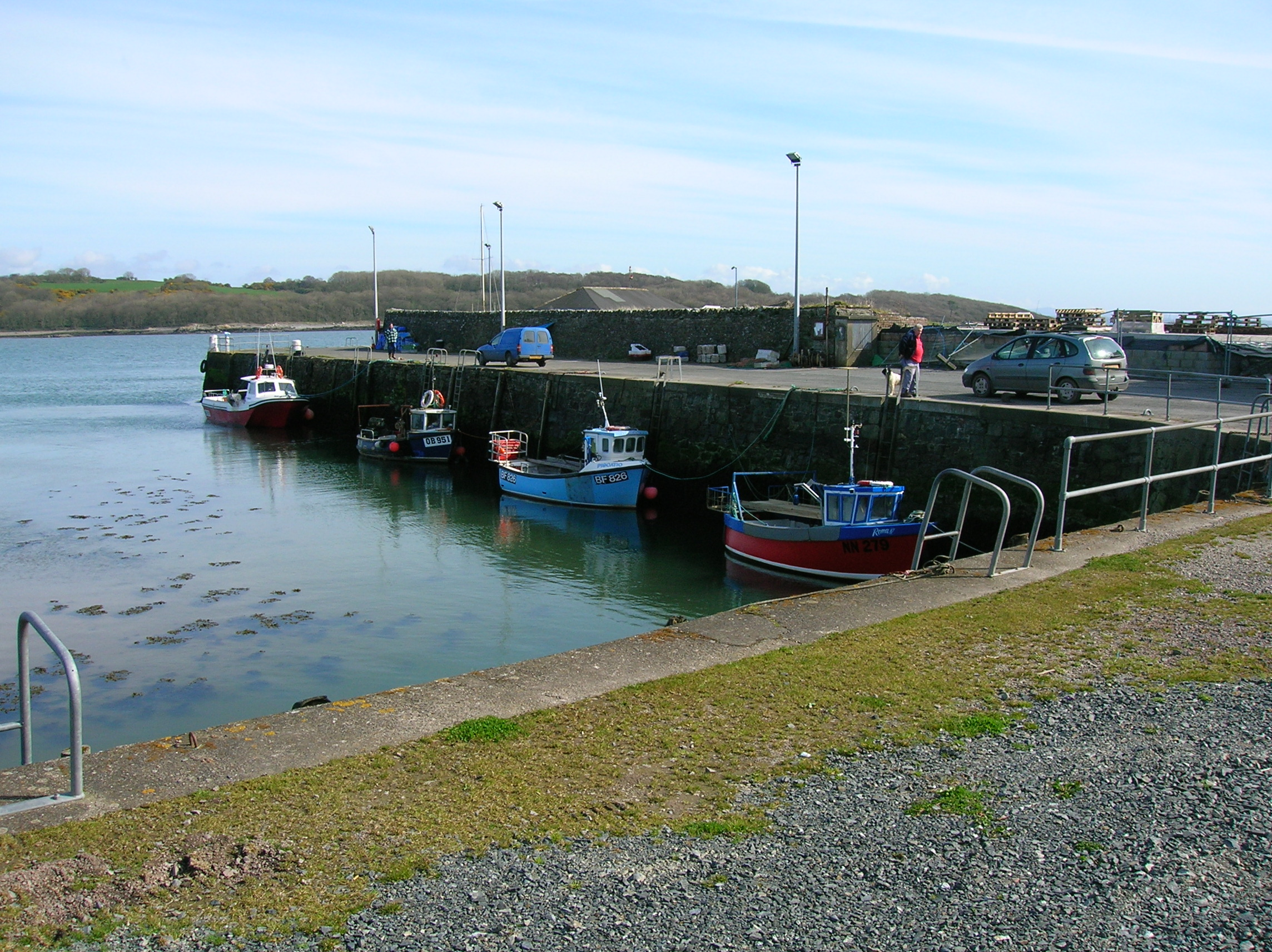 The harbour at Garlieston, The Machars, Dumfries & Galloway, Scotland